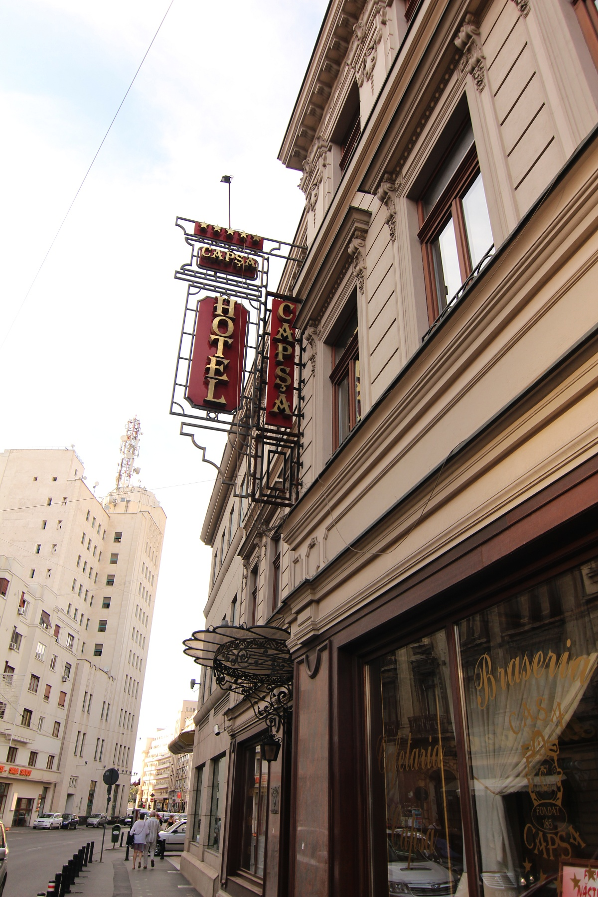 Casa Capșa with view on Calea Victoriei